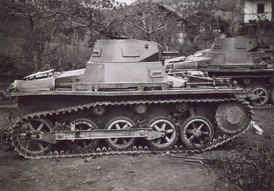 Panzer I of the Spanish Army, locally known as "negrillo"